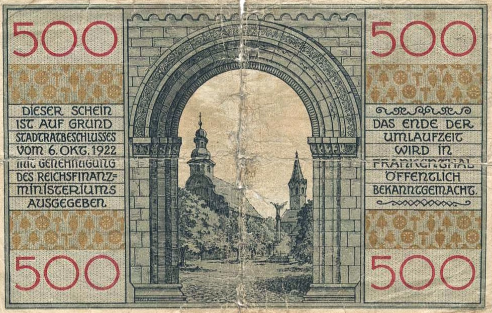 Stilisiertes Portal der Erkenbertruine auf Geldschein der Stadt Frankenthal, 1922 (eigener Scan von eigenem altem Geldschein)